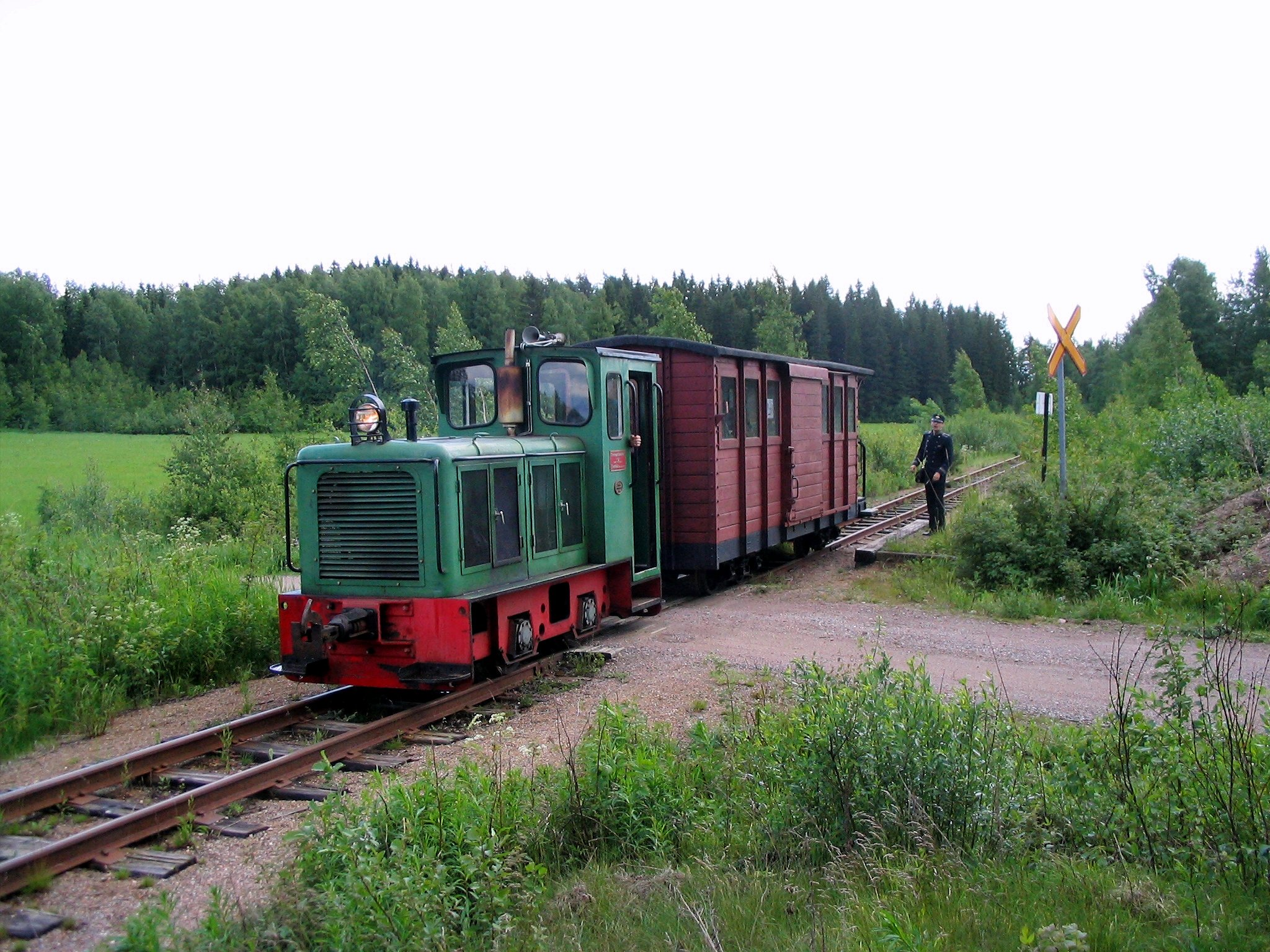 A market day special train hauled Schöma diesel locomotive stopped at Kermala railway stop on Jokioinen Museum Railway in Humppila, Finland.